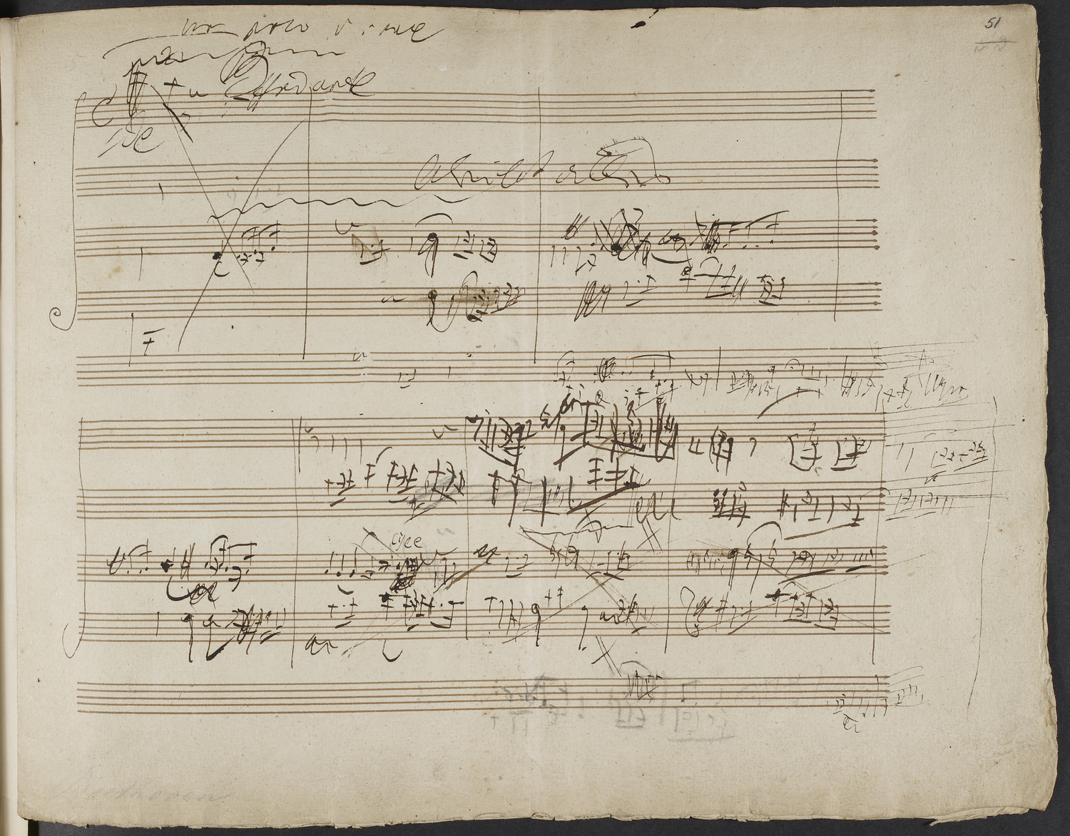 Sketches for the String Quartet Op. 131. In the composer's hand.